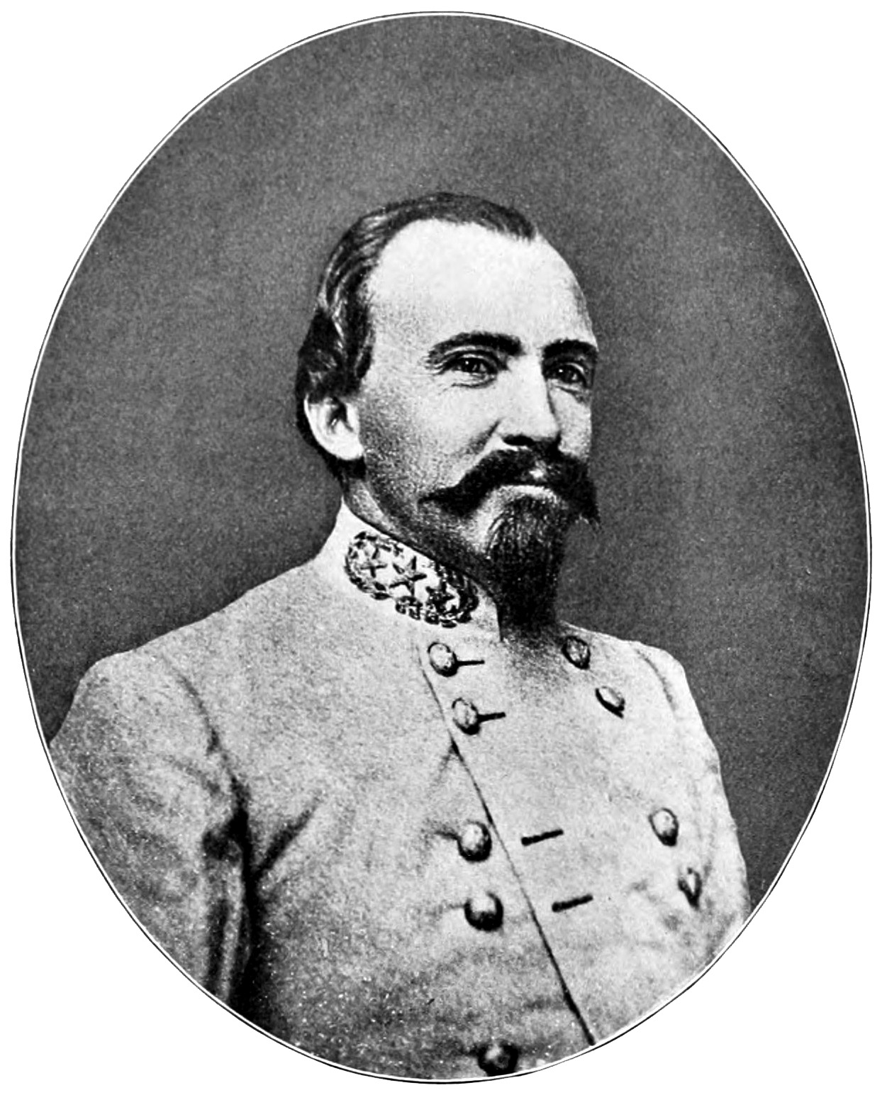 Photograph of Brigadier General John Hunt Morgan, C.S.A.